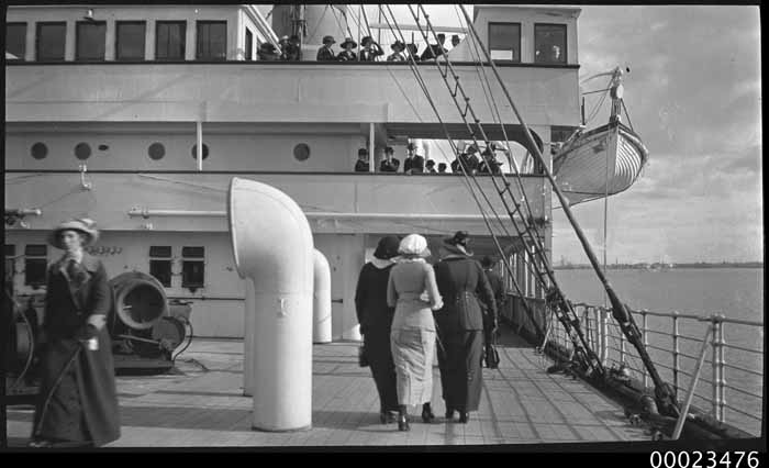 SS CERAMIC was built in 1913 and operated for the White Star Line on the Australian trade run. It only operated on this route for one year before becoming a troopship during World War I. After the war it once more traded on the passenger route between Liverpool and Australia. It was requisitioned once more during World War II for war services. In 1942, the ship was en route to Australia when it was torpedoed in the Atlantic Ocean by a German U-boat. Of the 656 people onboard, only one survived. This photo is part of the Australian National Maritime Museum’s Samuel J. Hood Studio Collection. Sam Hood (1870-1956) was a Sydney photographer with a passion for ships. His 72-year career spanned the romantic age of sail and two world wars. The photos in the collection were taken mainly in Sydney and Newcastle during the first half of the 20th century. The ANMM undertakes research and accepts public comments that enhance the information we hold about images in our collection. This record has been updated accordingly. Photographer: Samuel J. Hood Studio Collection Object no. 00023476